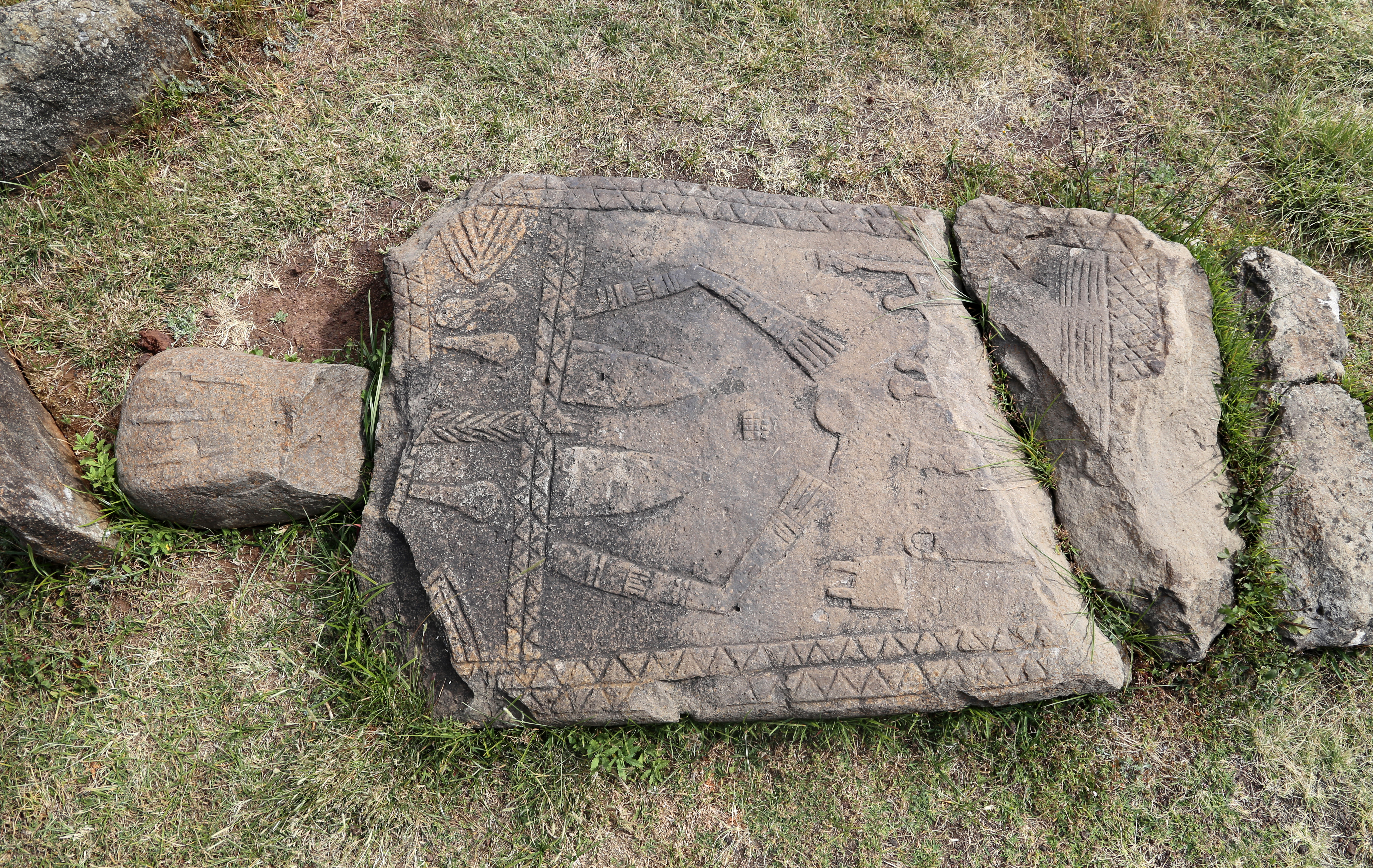 Tiya, Ethiopia